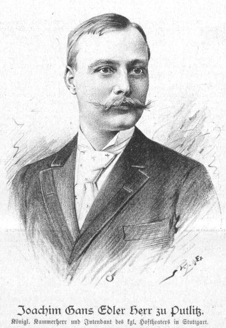 Portrait of Joachim Gans zu Putlitz (1860-1922), a director (General-Intendant) of theaters in Stuttgart, Germany.